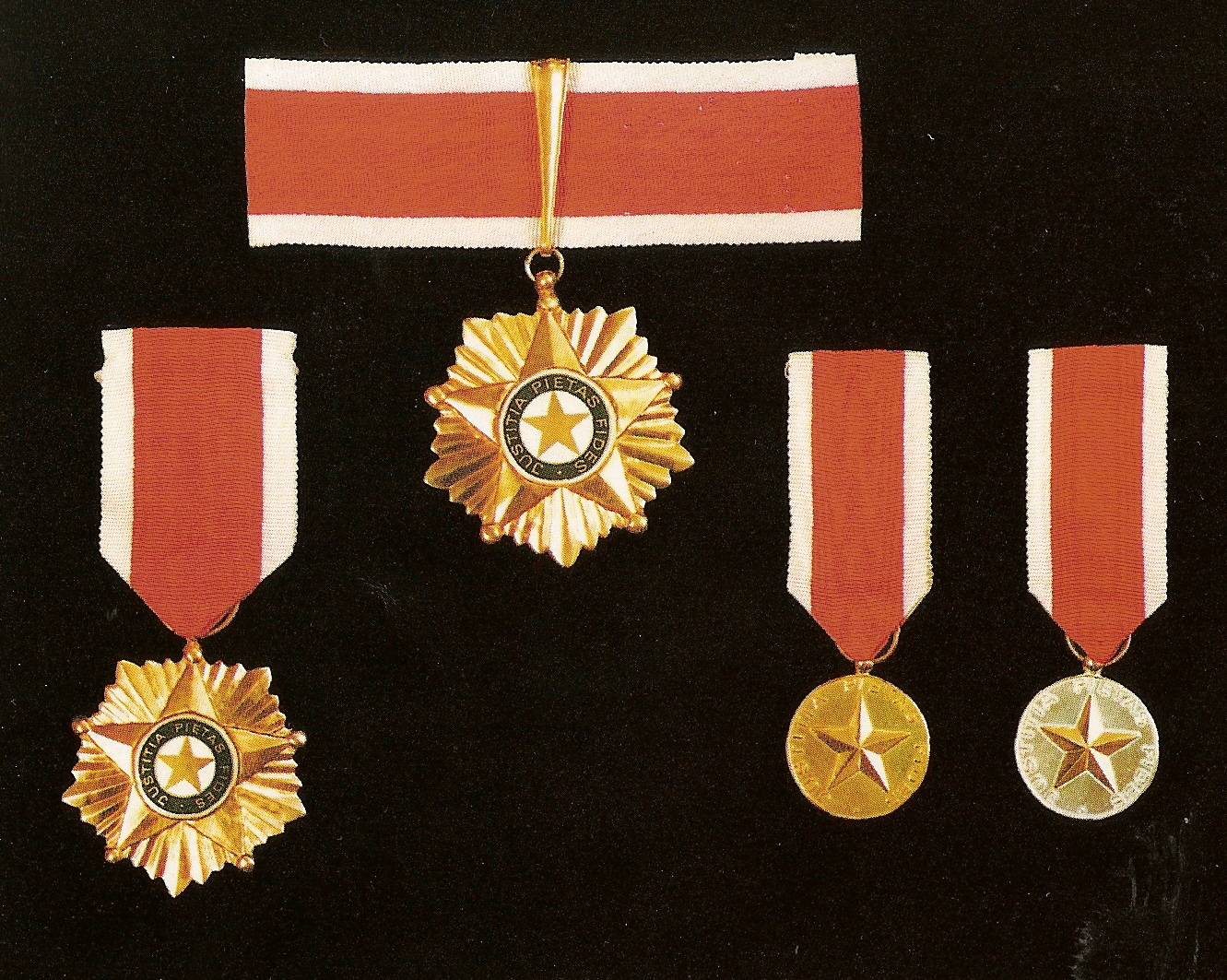 The Honourable Order of the Yellow Star and the medal of the Yellow Star in gold and silver (Suriname)